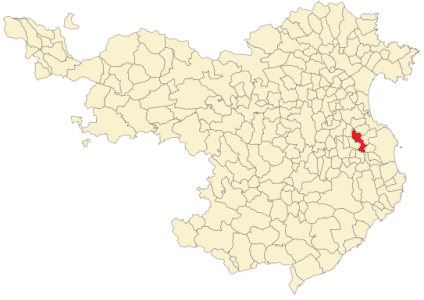 La Tallada d'Empordà